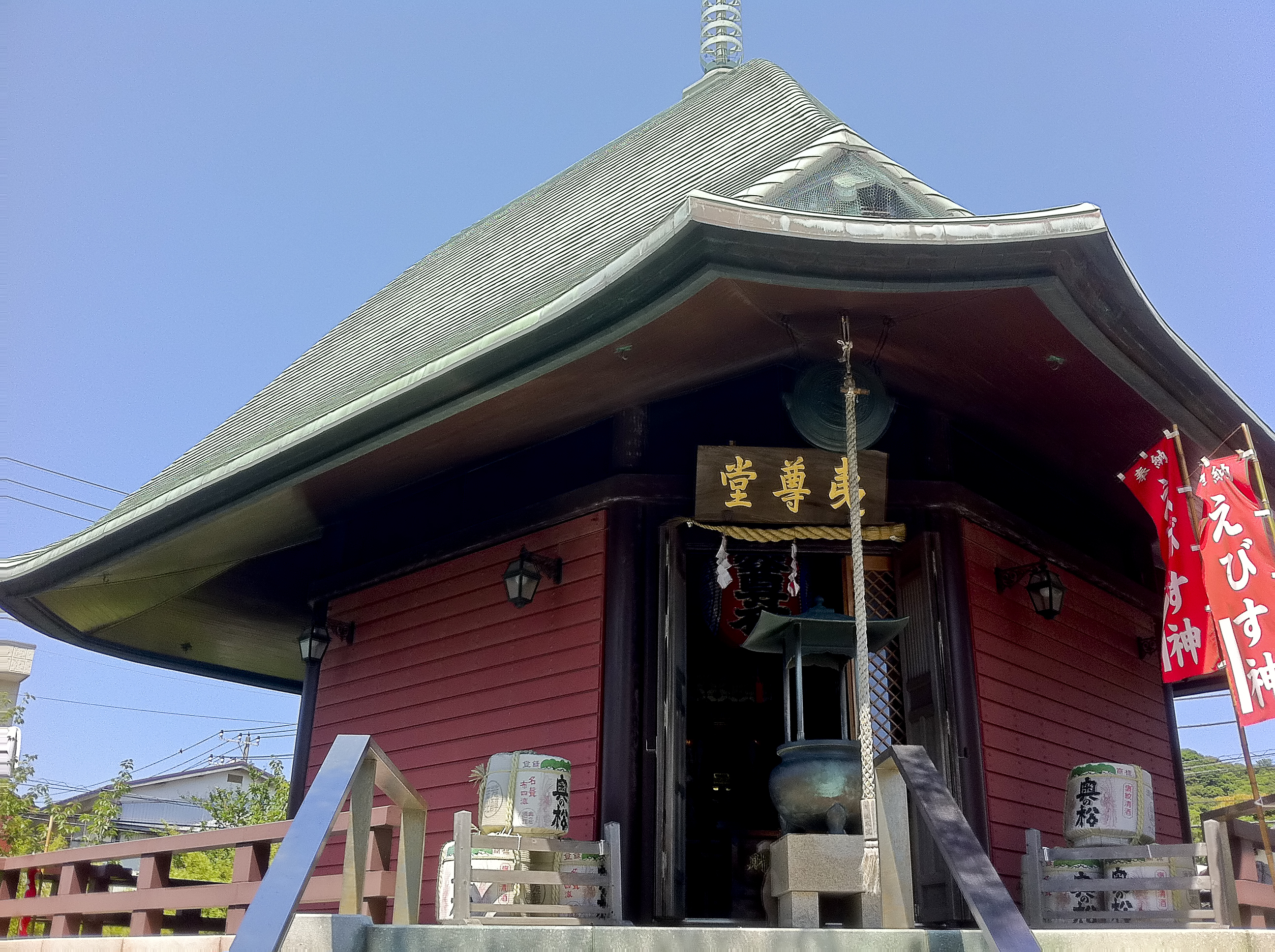 A clearly visible example of hidden roof (noyane), Ebisu-dō, Honkaku-ji, Kamakura